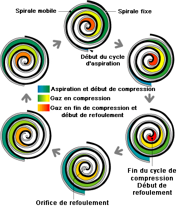 Compression cycle of a scroll compressor (french annotations)